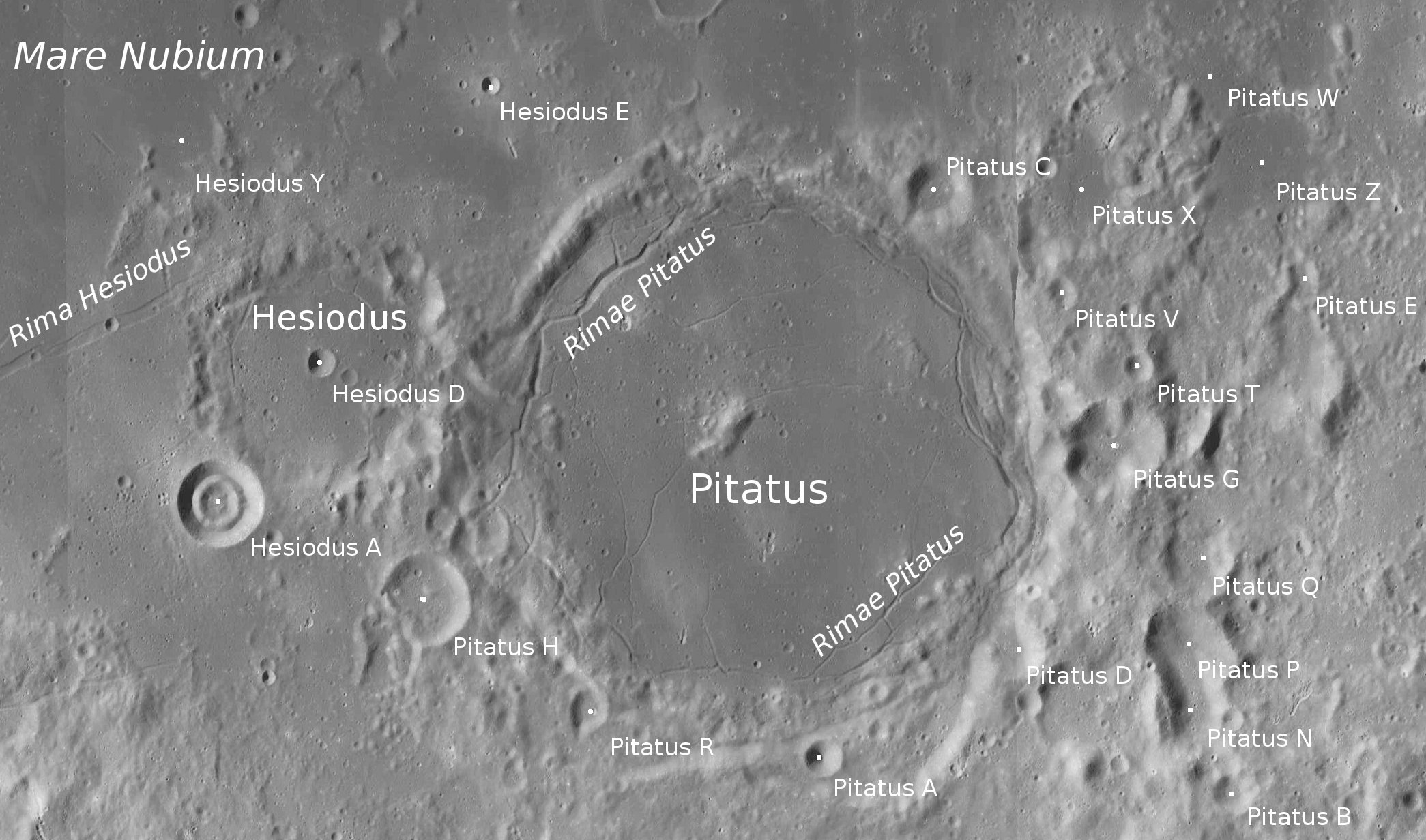 Craters Pitatus and Hesiodus (detail of LRO - WAC global moon mosaic; Mercator projection)